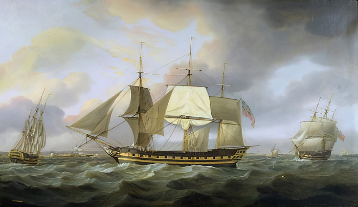 Classic view of the East Indiaman Belvedere in three positions